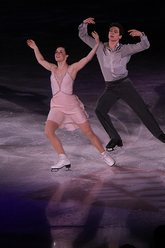 Scott Moir/Tessa Virtue at the 2010 Stars on Ice in Halifax.